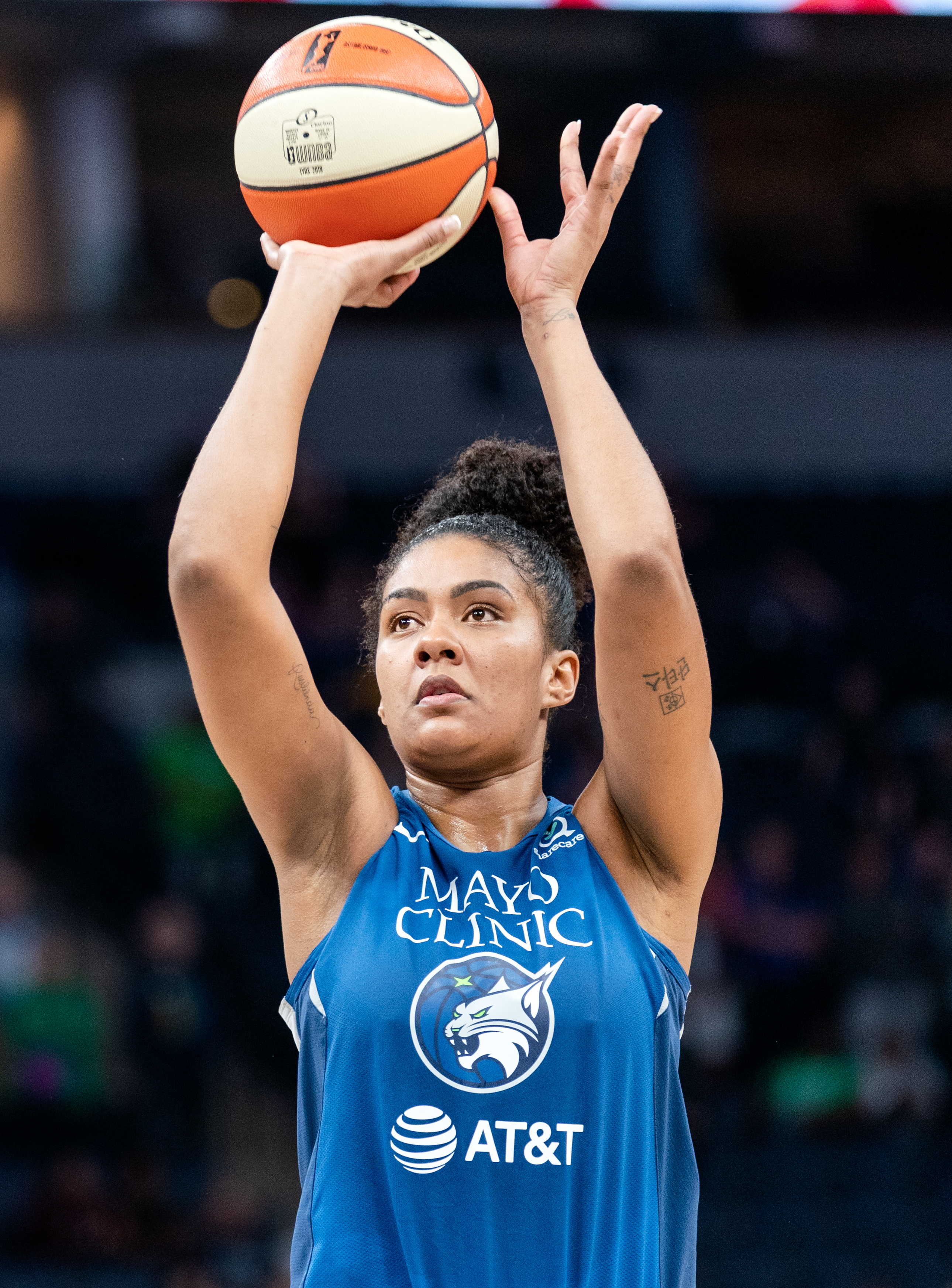 Minnesota Lynx vs Las Vegas Aces at Target Center in Minneapolis, MN on June 1 2019; the Aces won the game 80-75.